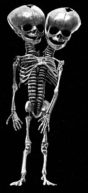 Dicephalus dibrachius diauchenos